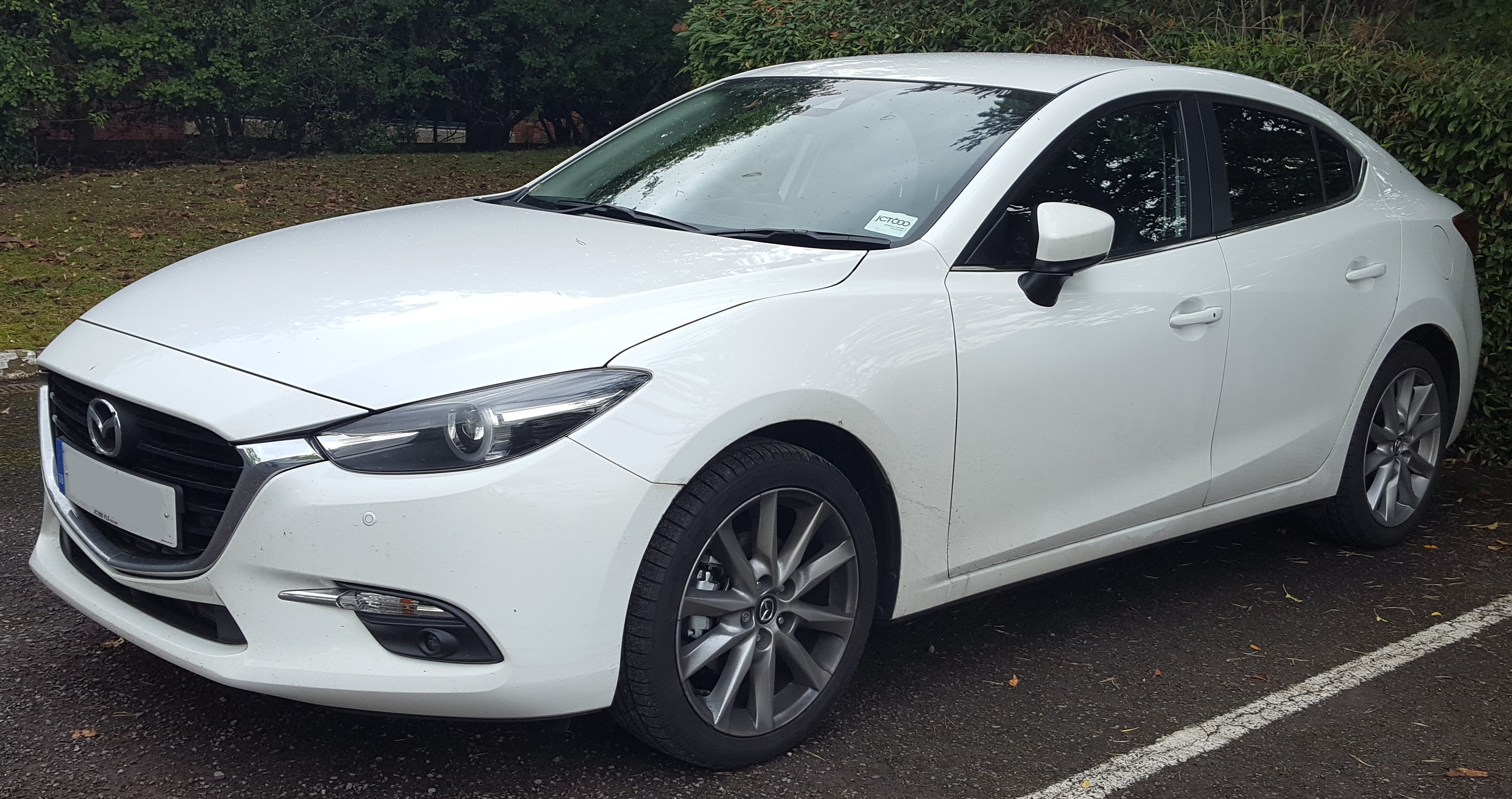 2017 Mazda3 Sport Diesel 2.2 Taken in Leamington Spa